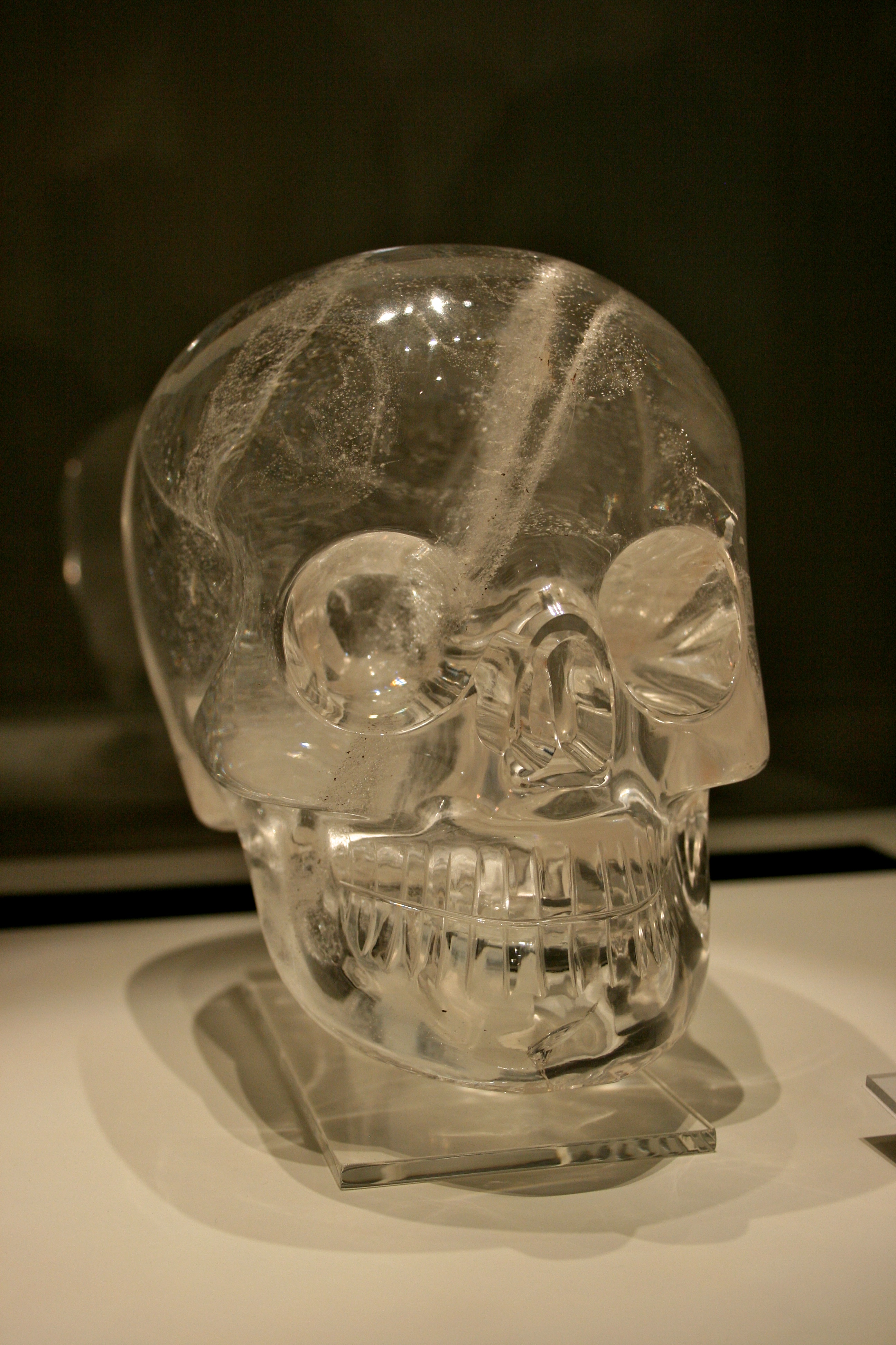 Crystal Skull at the British Museum. Description: "Rock crystal skull. Late 19th century AD. Purchased from Tiffany and Co., New York through Mr G.F. Kunz Ethno 1898-1"